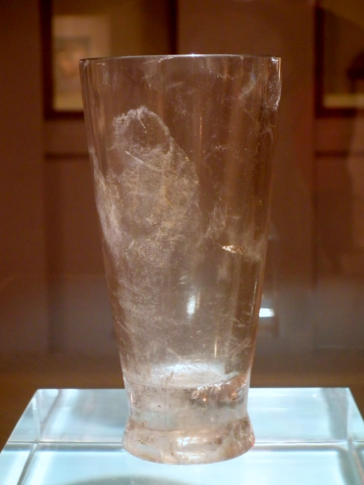 This archaeological artifact was unearthed at Banshan, Hangzhou in 1990, which was made during Warring States period, and currently is collected and exhibited in Hangzhou Museum.